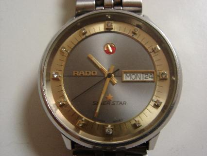 Rado Silver Star watch, circa 1980. Photo taken by self.